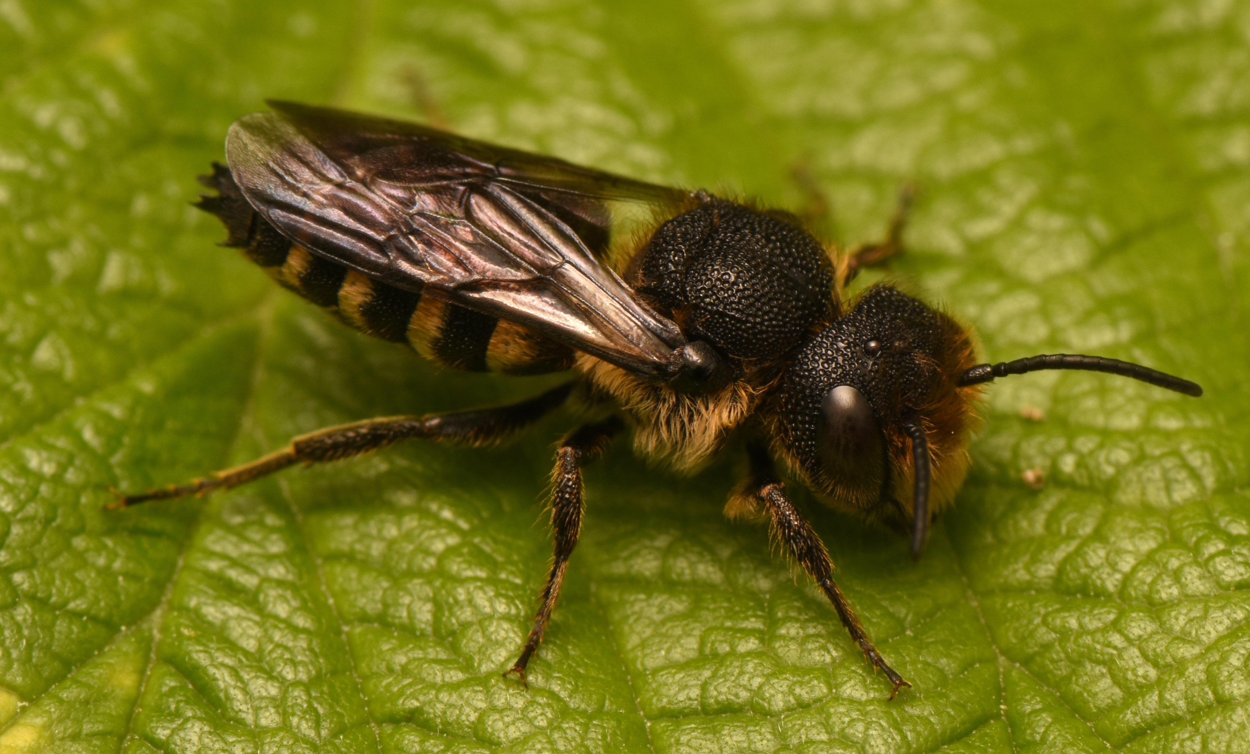 Picture on male Coelioxys rufescens